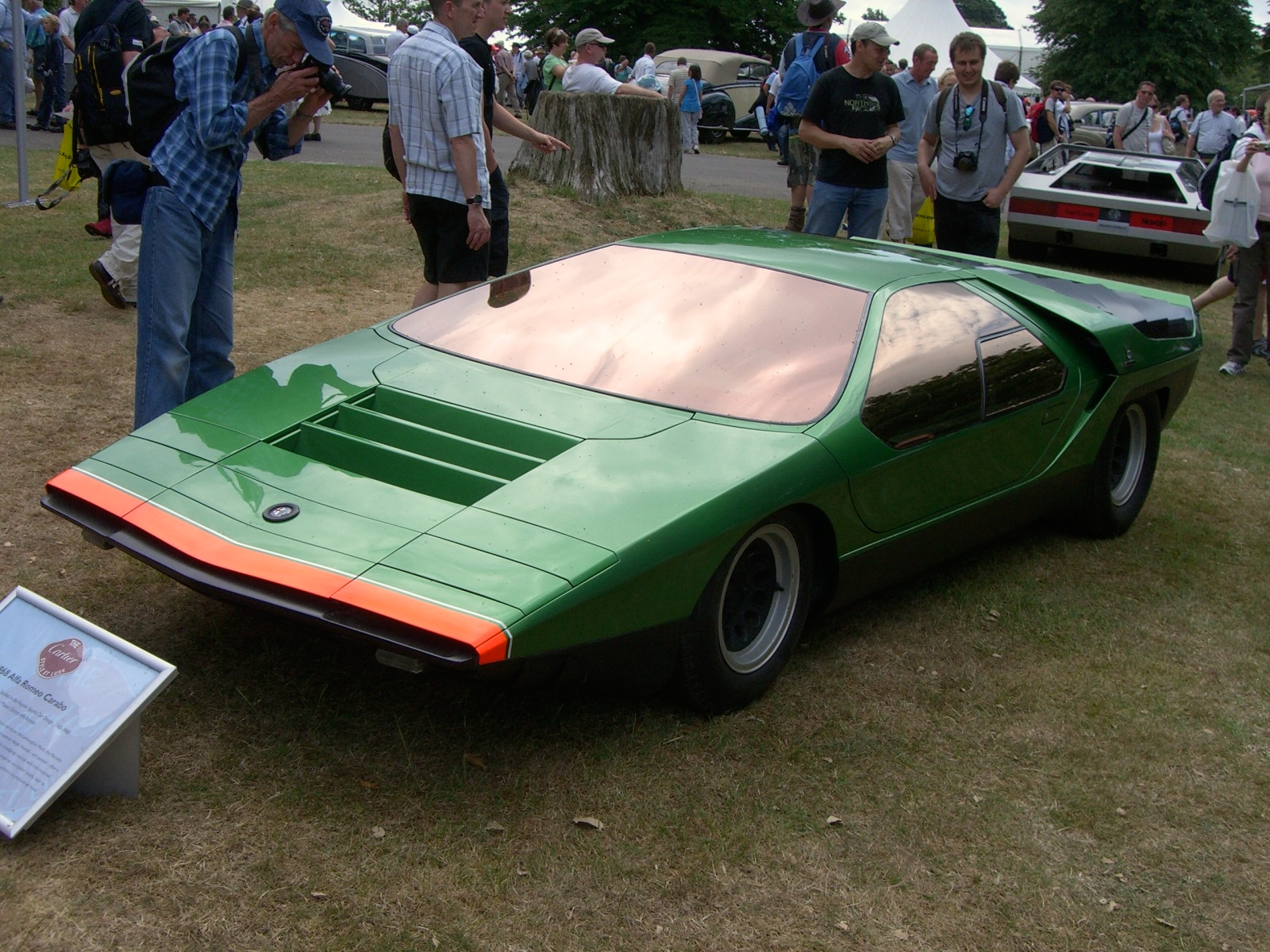 Built on the chassis of the 33 Stradale with a body by Bertone. Mid-mounted 230bhp V8